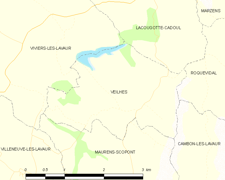 Map of French municipality Veilhes